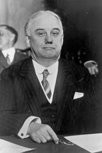 Credited to the U.S. Senate Historical Office